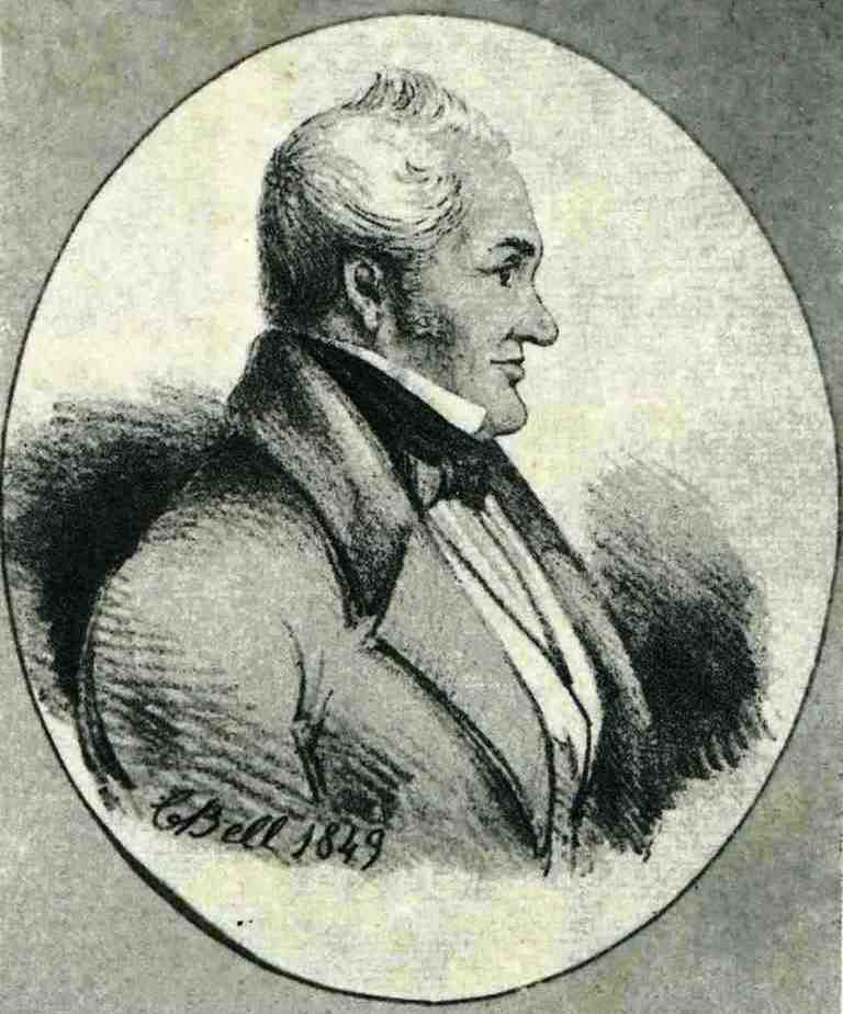 Drawing of JB Ebden. Influential businessman and politician of the Cape Colony. South Africa.